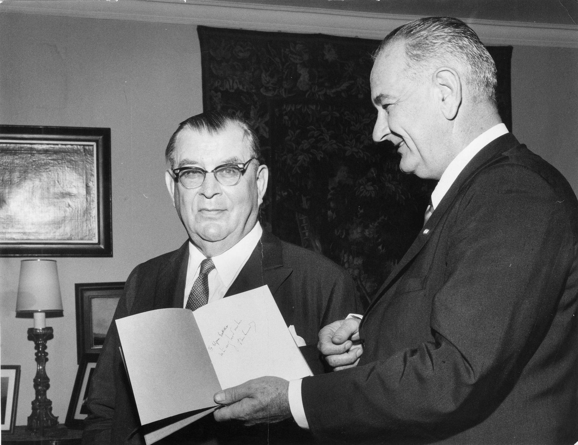 Photograph of the U.S. Vice President L. B. Johnson visiting the home of Minister Eljas Erkko (1895–1965), the chairman of the Finnish-American Society. He is presenting a book by J. F. Kennedy to Mr. Erkko. (Photograph first published in Helsingin Sanomat on 8 September 1963.)